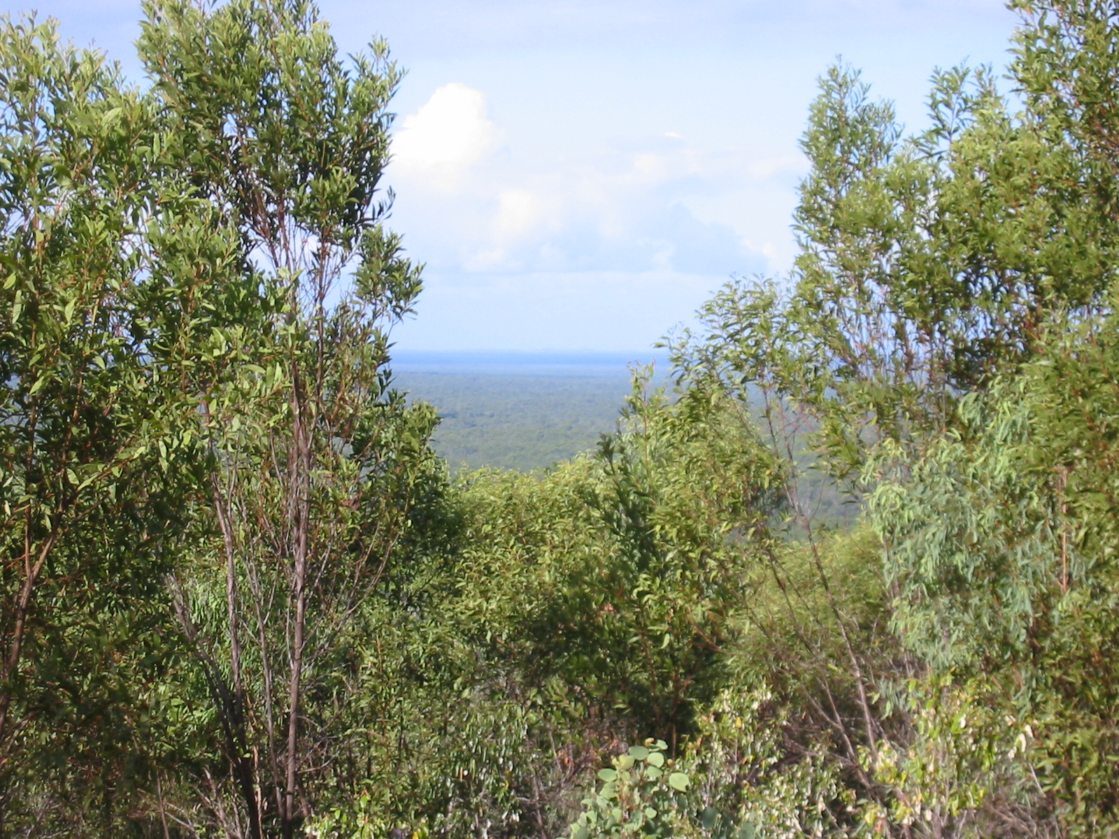 View from Mount Doongal in February 2006, looking southeast.